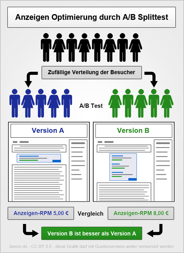 Splittesting for Comparison of two different Ad Versions.